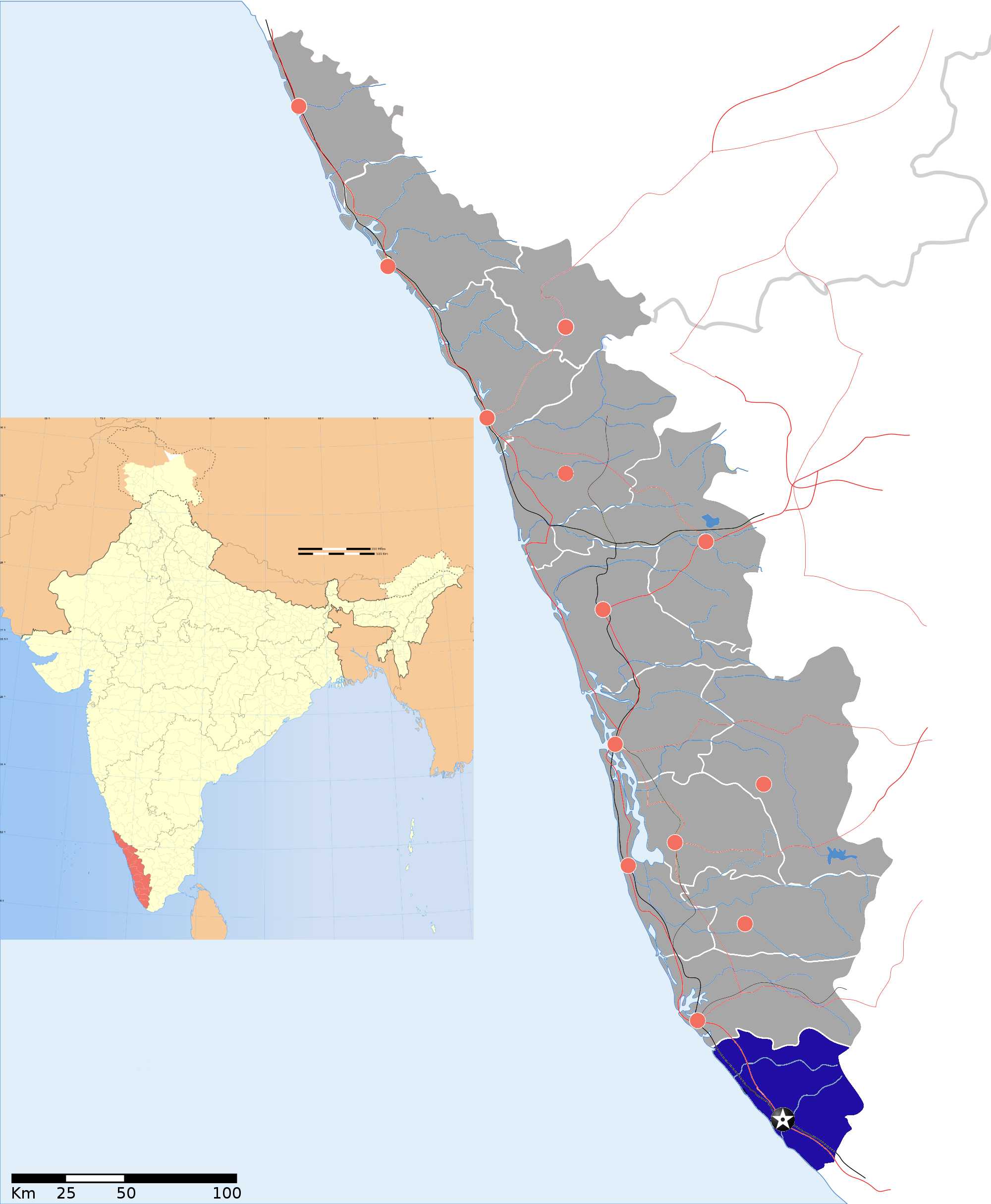 Location of Kerala in India in Map of India and Location of Thiruvananthapuram District in map of Kerala